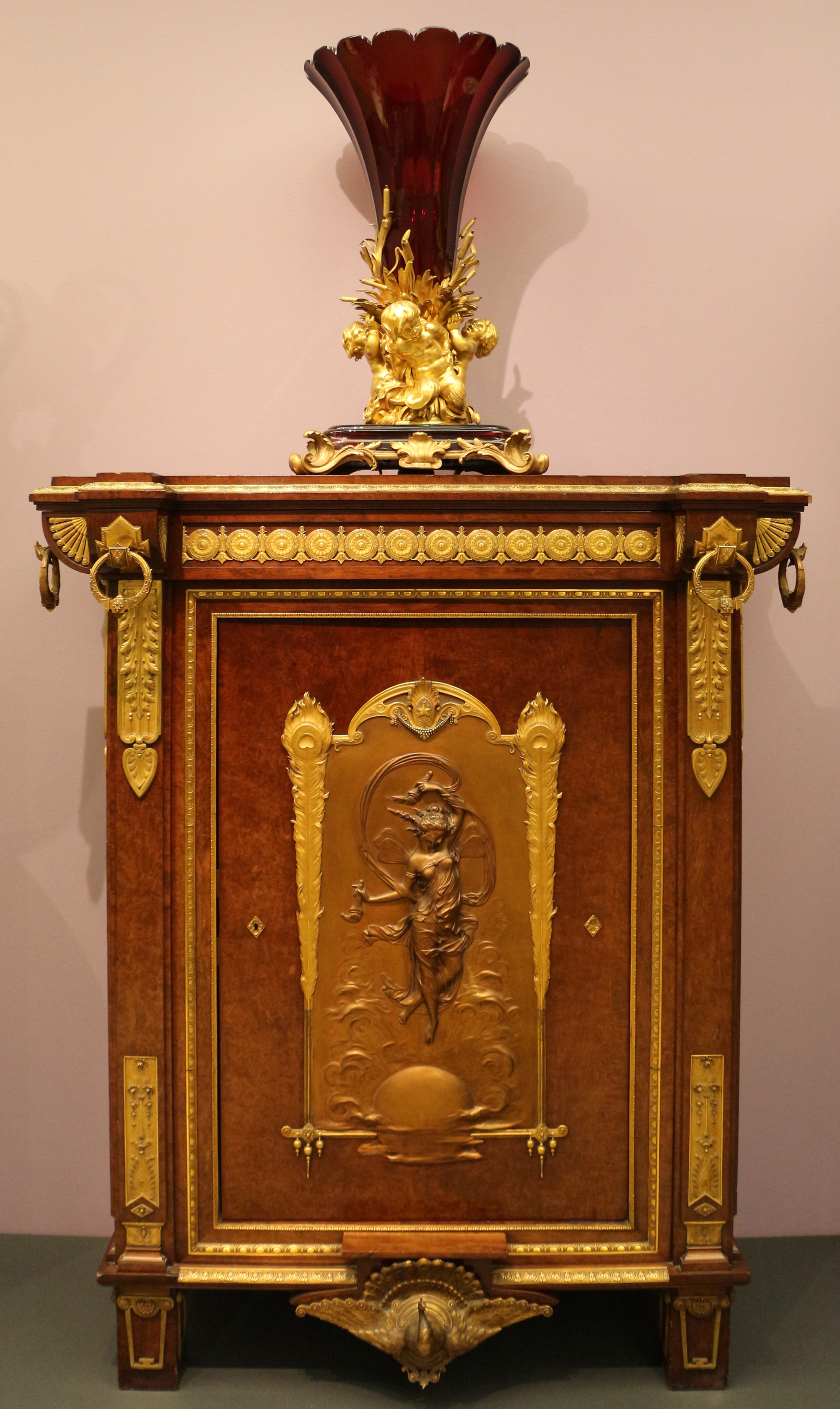 Decorative arts in the Musée d'Orsay